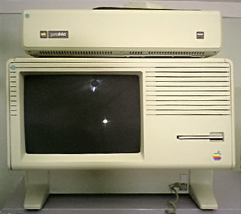 A Lisa 2/10 (looks identical to the Macintosh XL) with an external ProFile hard drive.